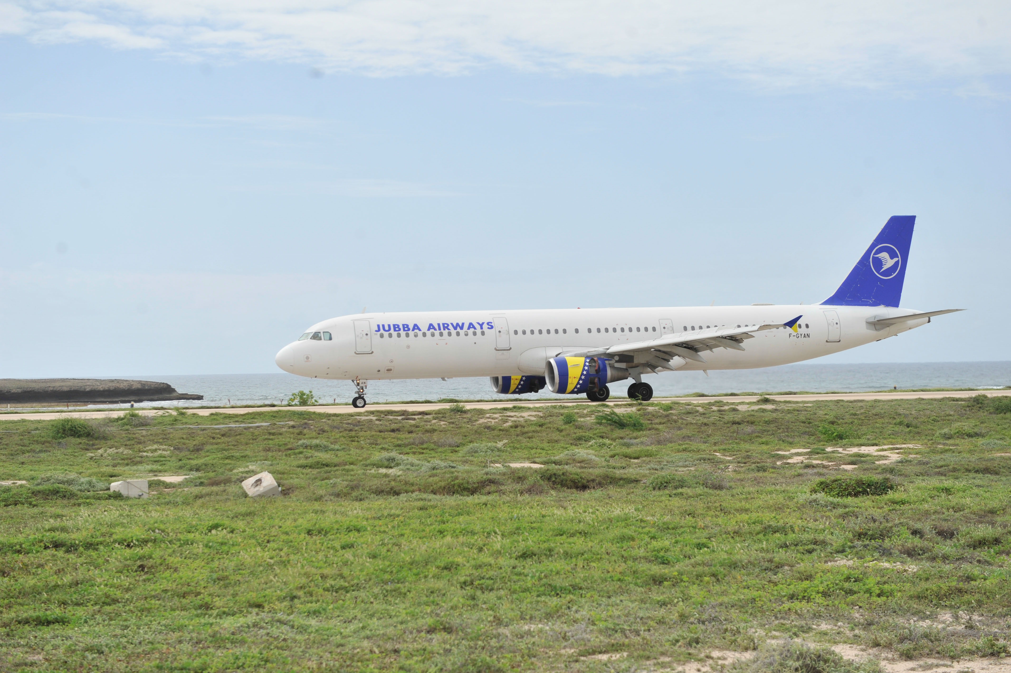 Airbus A321 (F-GYAN), leased to Jubba Airways, lands at Aden Abdulle International Airport in Mogadishu, Somalia.